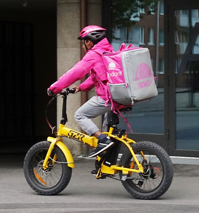 Foodora messenger bicycling on the street Satamakatu in Tampere, Finland.